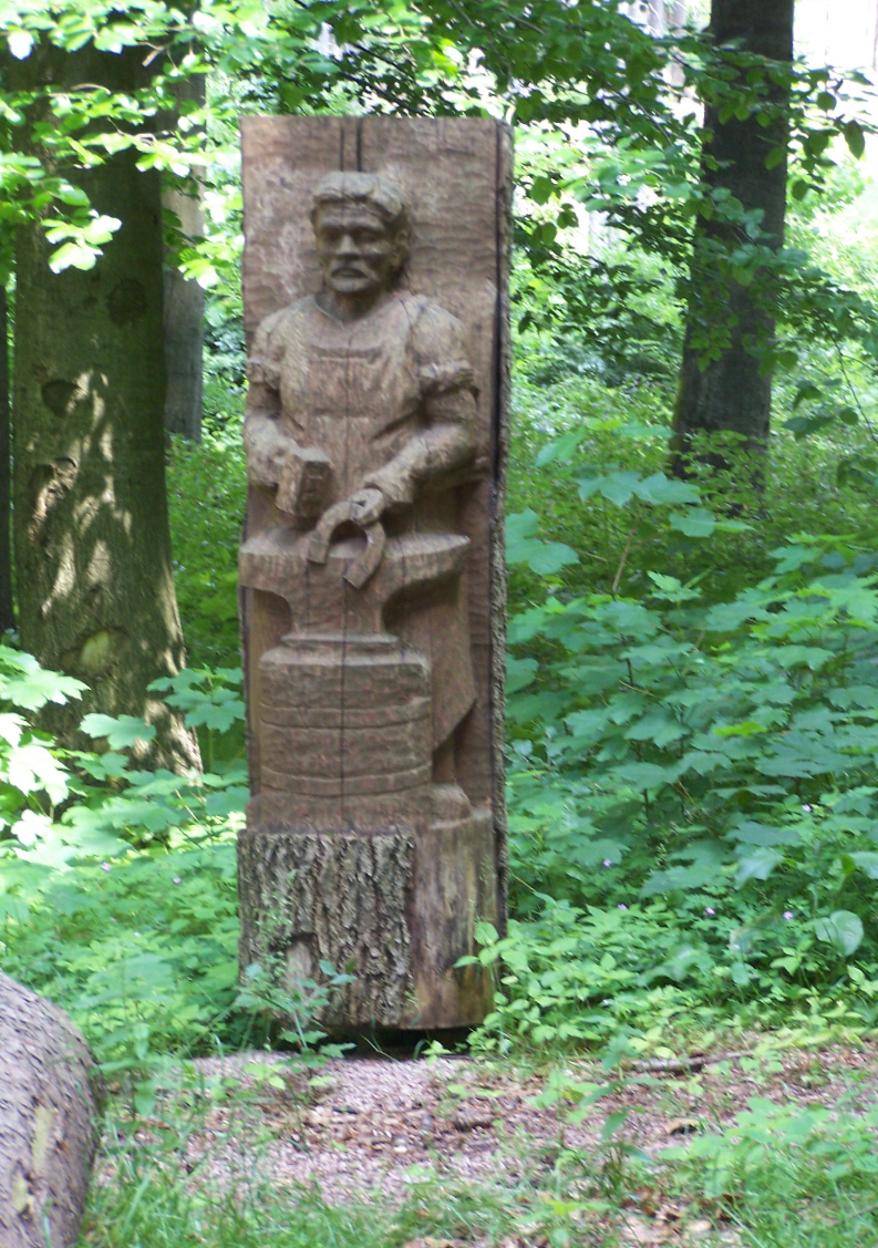 At the Rennsteig-Trail - a freestanding sculpture The Smith from Ruhla.